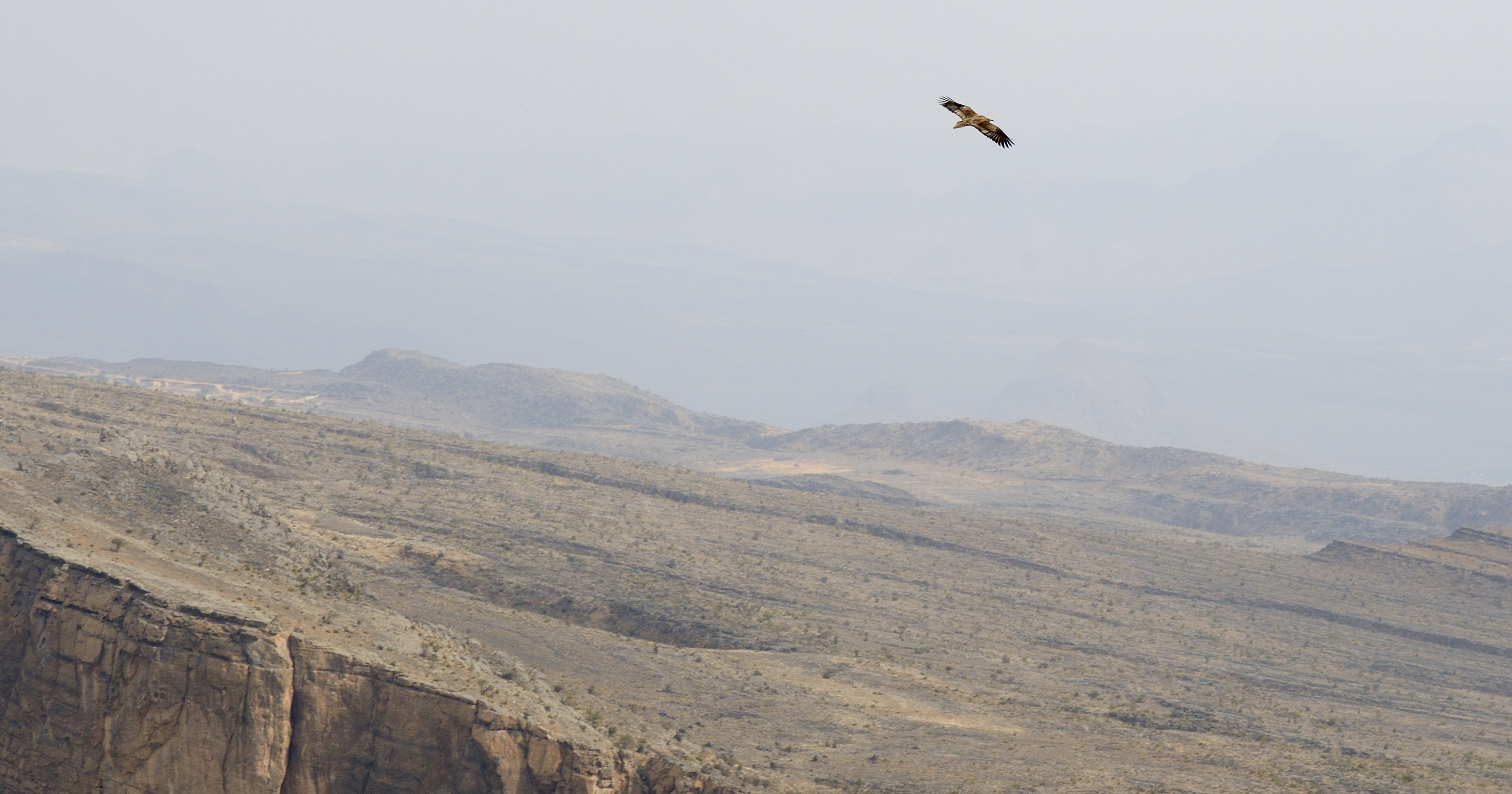 Description: Immaturer 'Neophron percnopterus